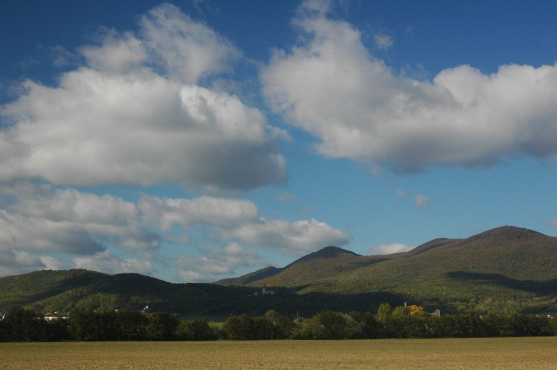 Malé Karpaty from south